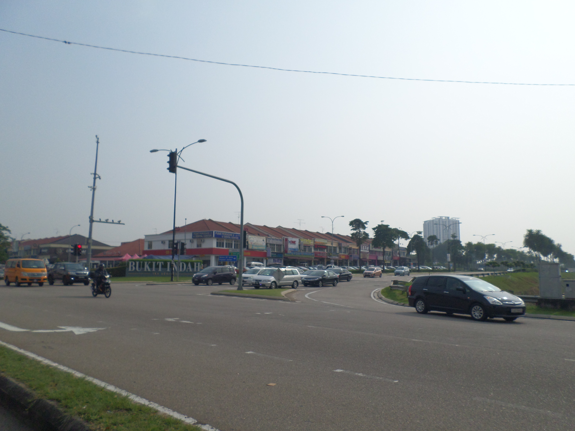 Bukit Indah, Nusajaya, Johor Bahru, Johor, MalaysiaBahasa Melayu: Bukit Indah, Nusajaya, Johor Bahru, Johor, Malaysia